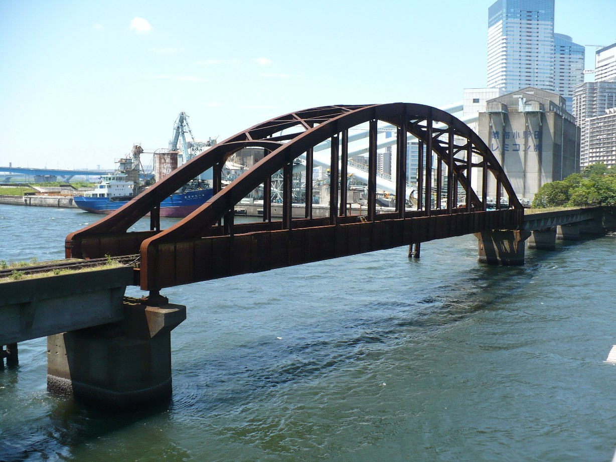 Disused Harumi bridge on Tokyo port railway line, Tokyo, Japan.